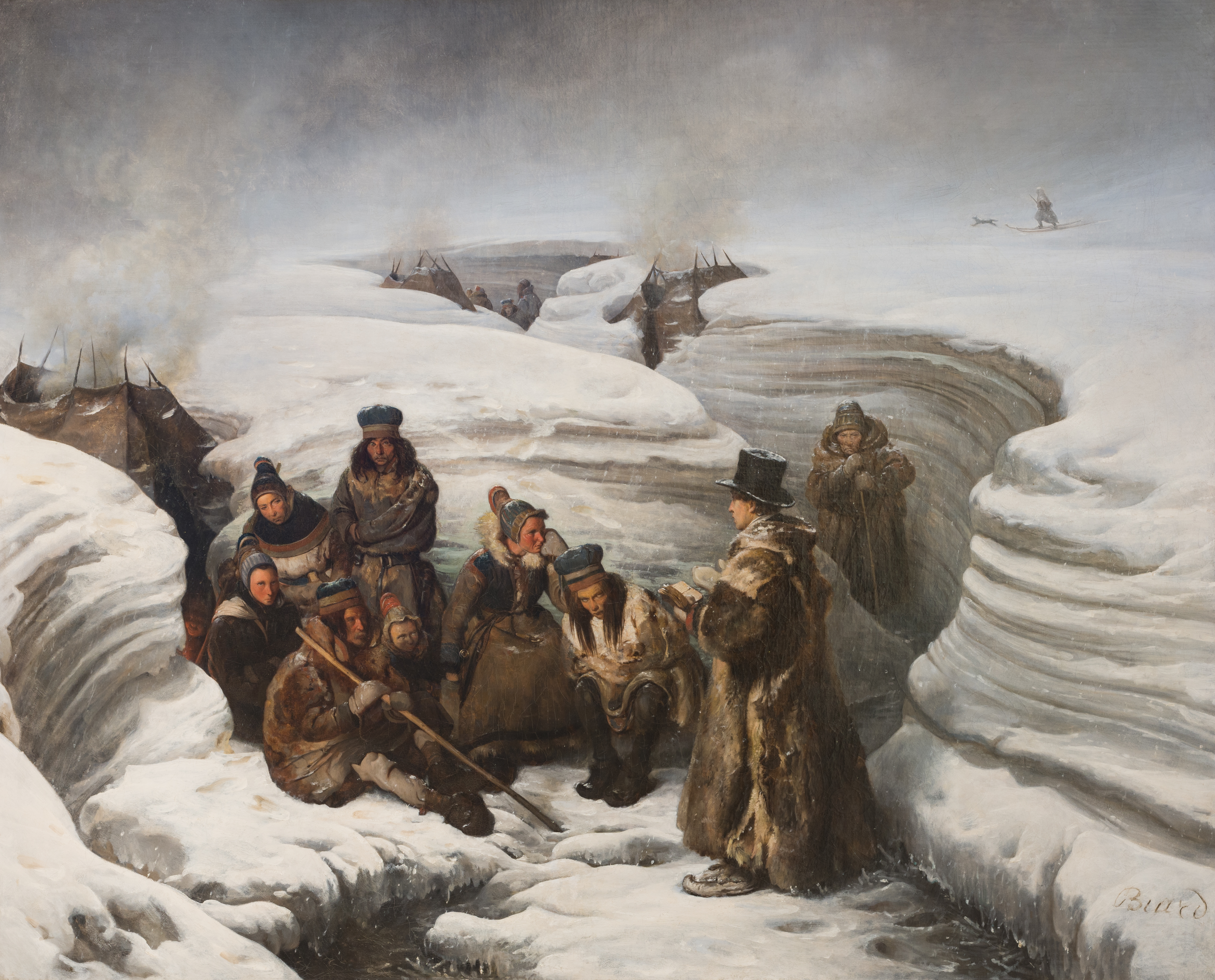 François-Auguste Biard "Pastor Laestadius instructing the Lapps"